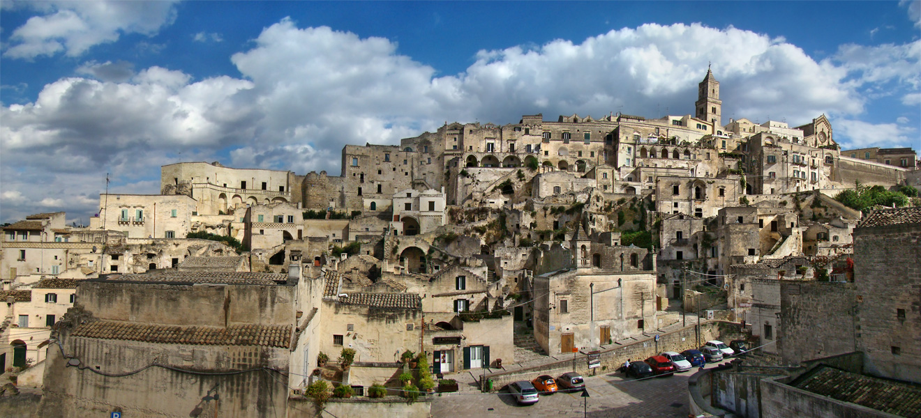 Matera, Basilicata, Italy. The Sasso Barisano looking east.